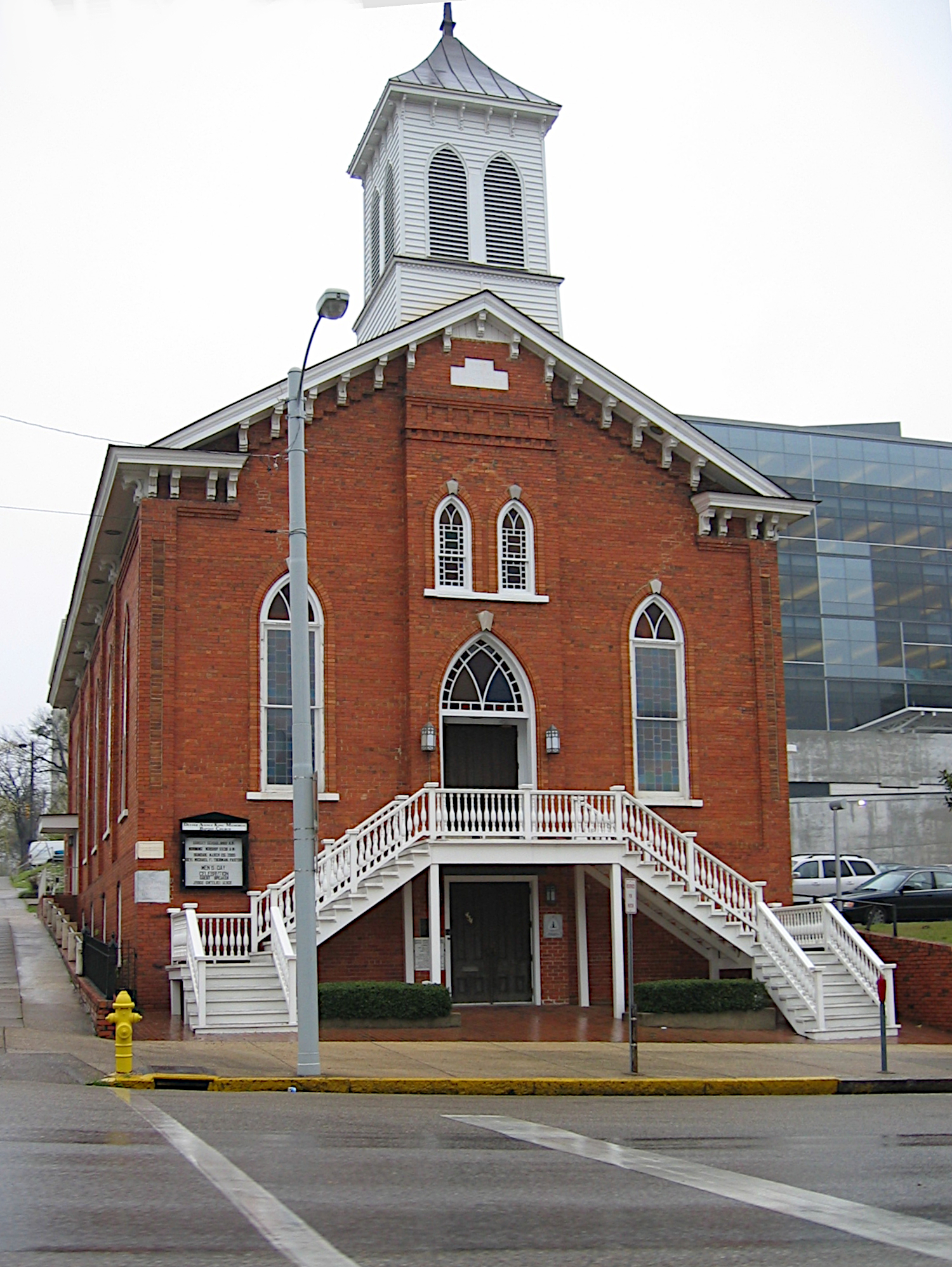 Martin Luther King Jr's church in MontgomeryMartin Luther King Jr's church in Montomery